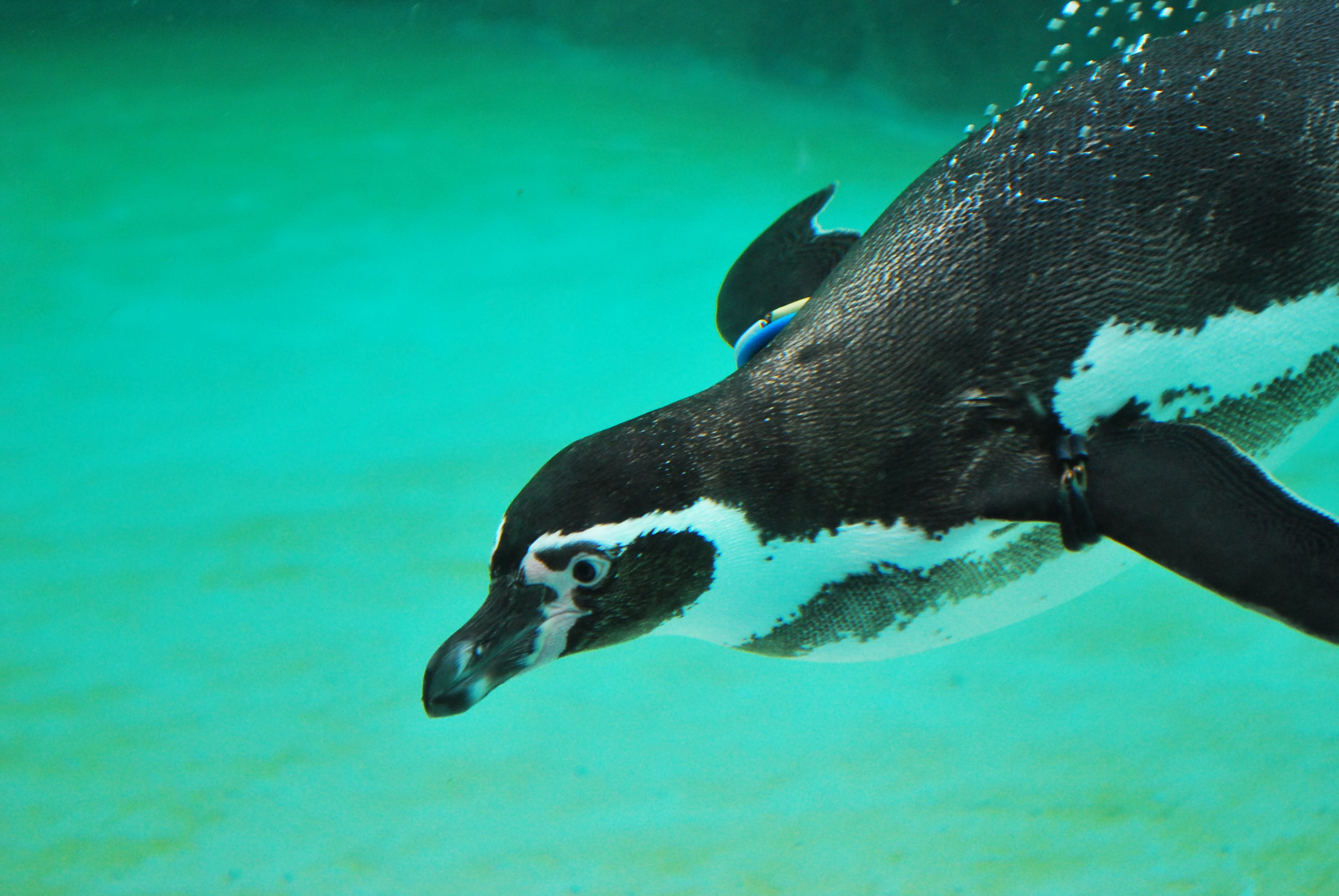 Tokyo Sea Life Park in Tokyo, Japan.